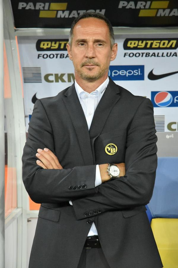 Adi Hütter